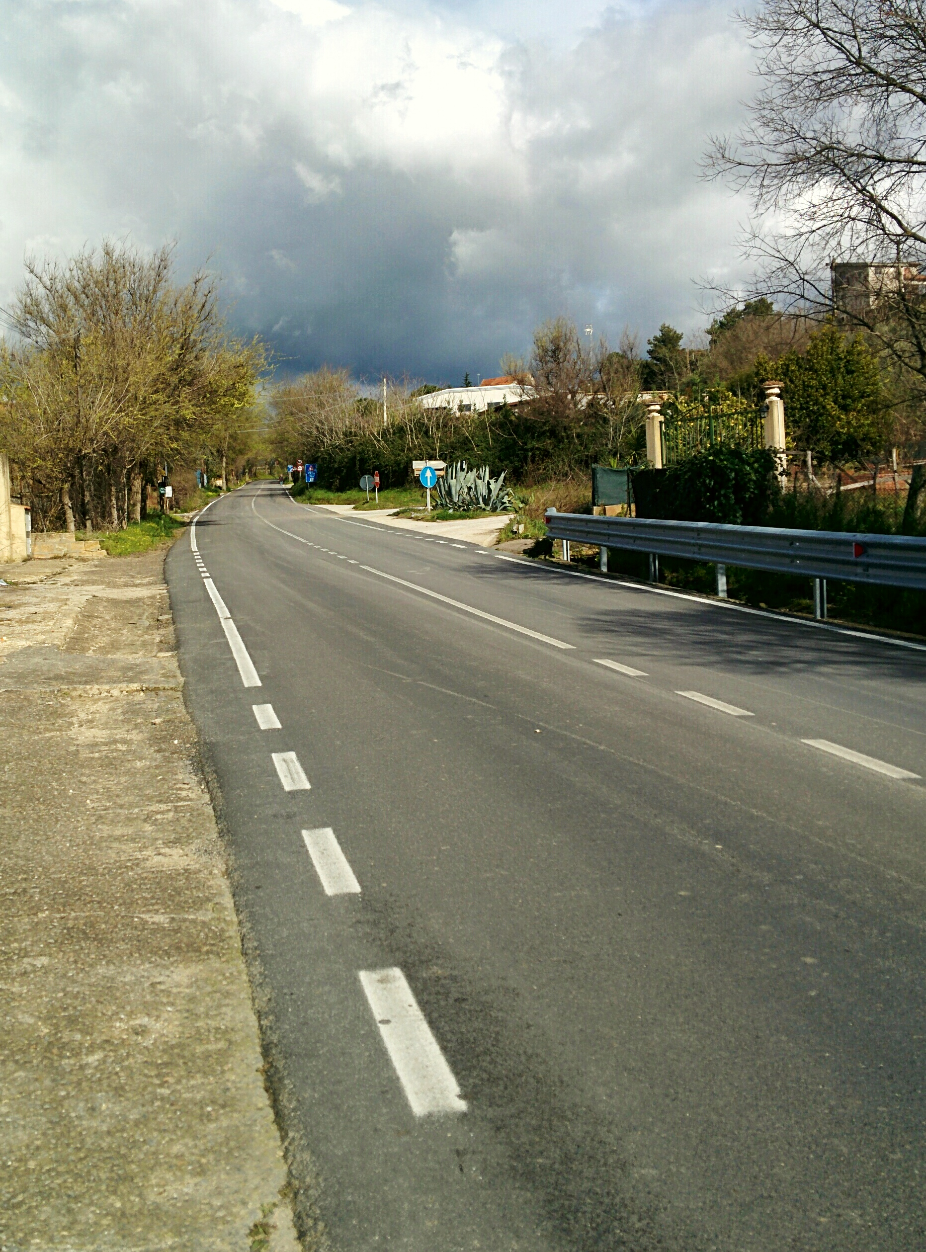 Road strada provinciale 5 (province of Caltanissetta) in Grotticelle (Caltanissetta).